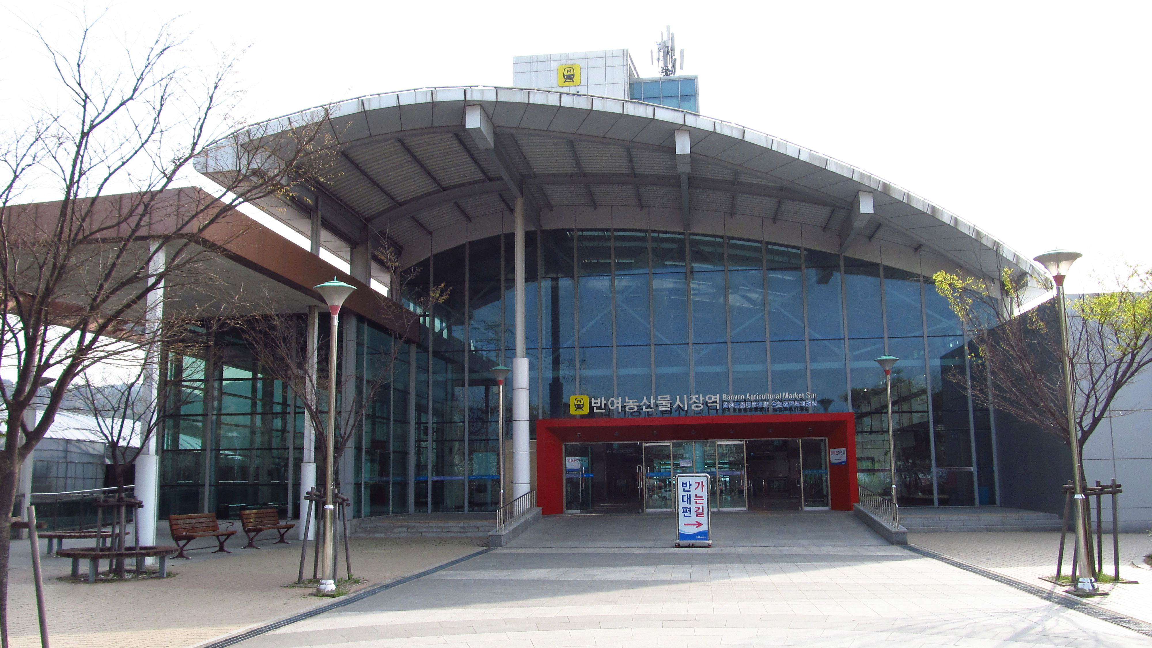 The no.1 entrance to Banyeo Agricultural Market Station on the Busan Subway Line 4 in Haeundae-gu, Busan, Republic of Korea(South Korea)